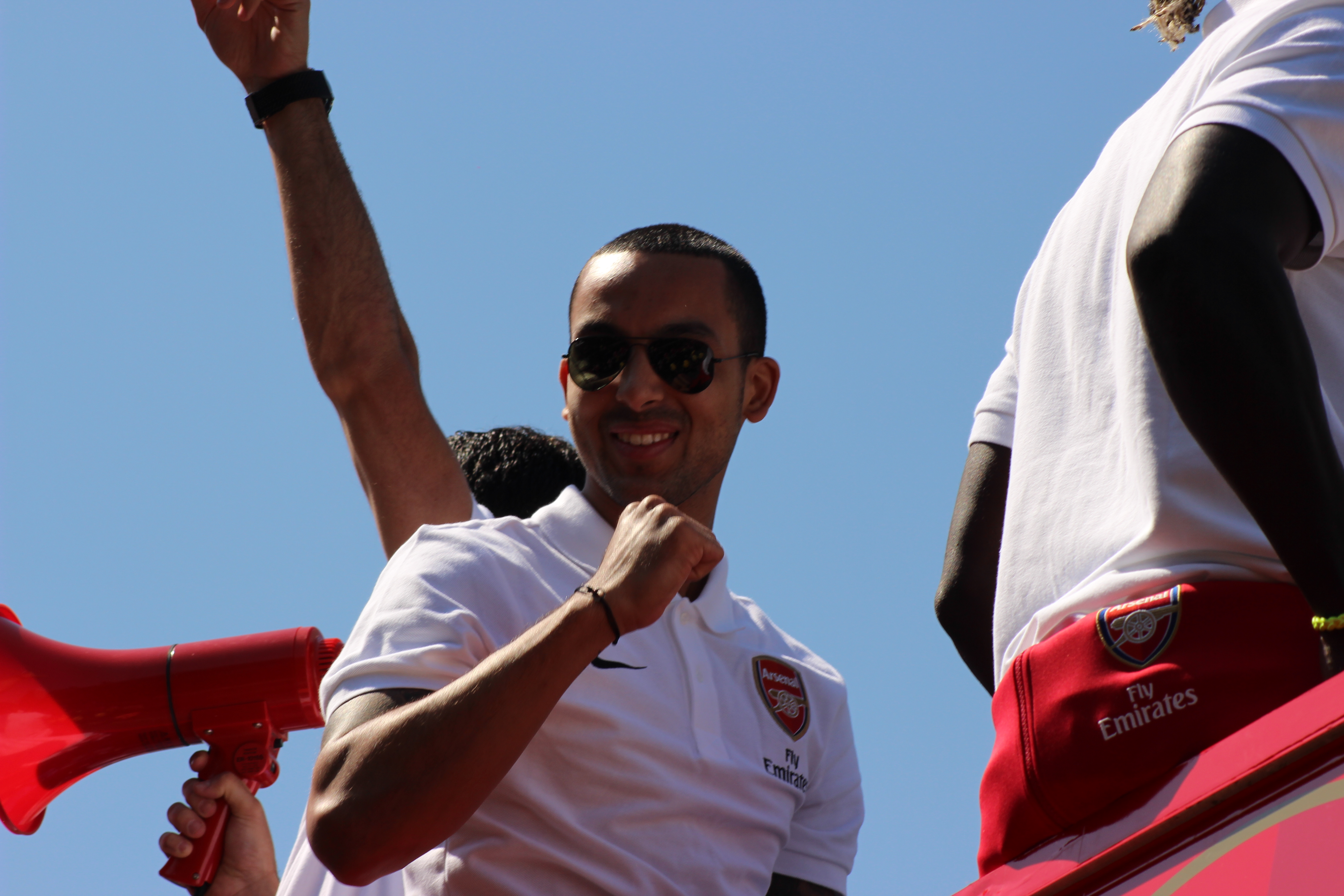 Theo Walcott of Arsenal celebrates with the crowd of fans below